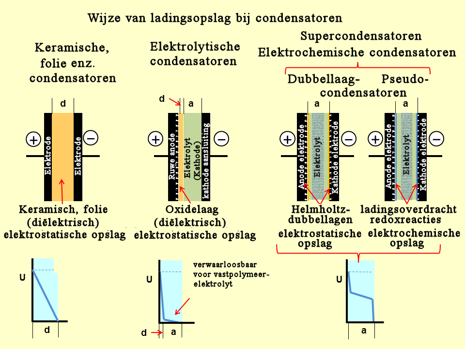 electric (static) and electrochemical charge storage principles of fixed capacitors (now with Dutch txt)